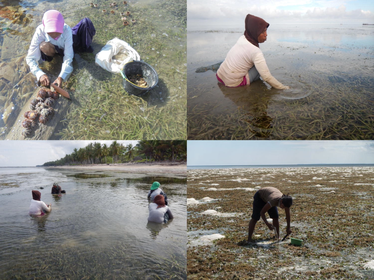 Example gleaning activity on seagrass from throughout SE Sulawesi, Indonesia